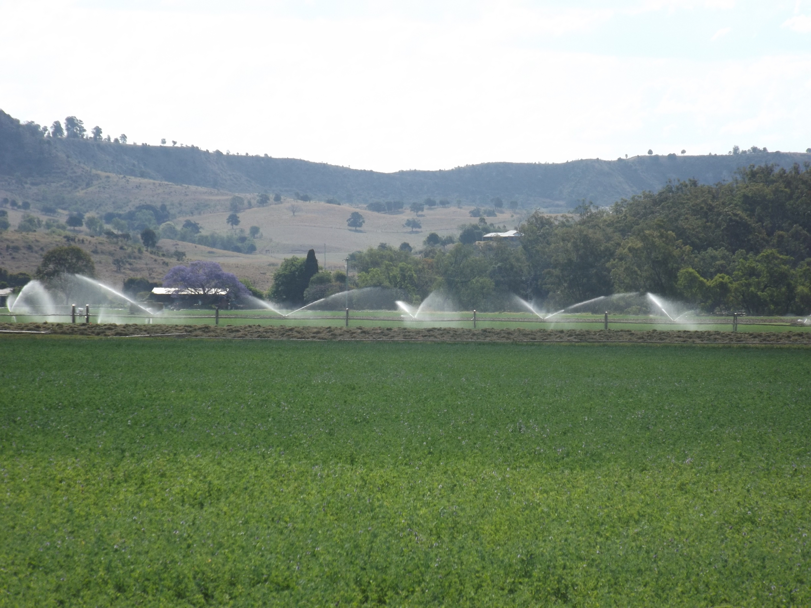 Photo of crops being irrigated at Winwill, Queensland, Australia.